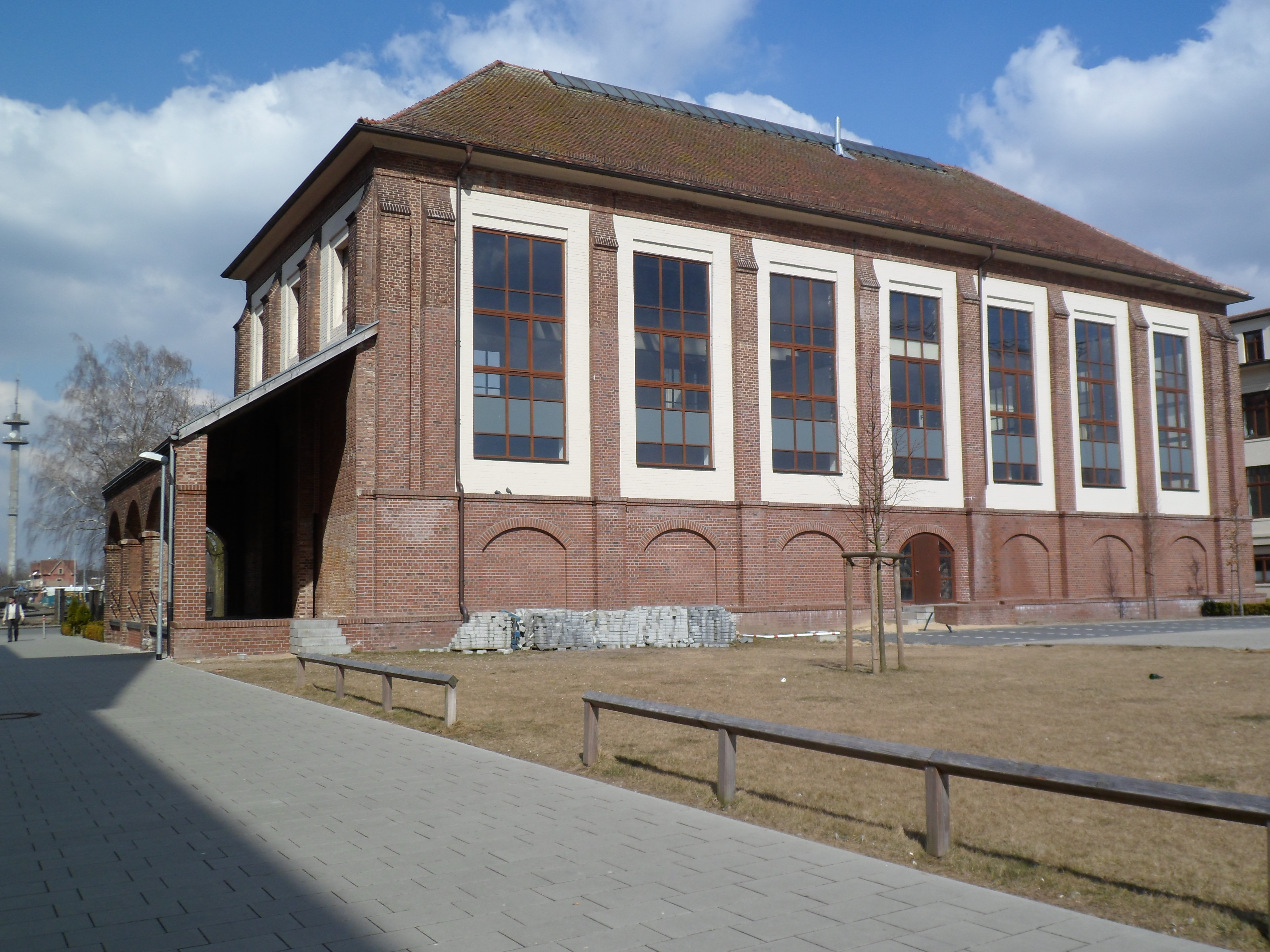 Nino-Ballenlager auf der Rückseite des Verwaltungsgebäudes